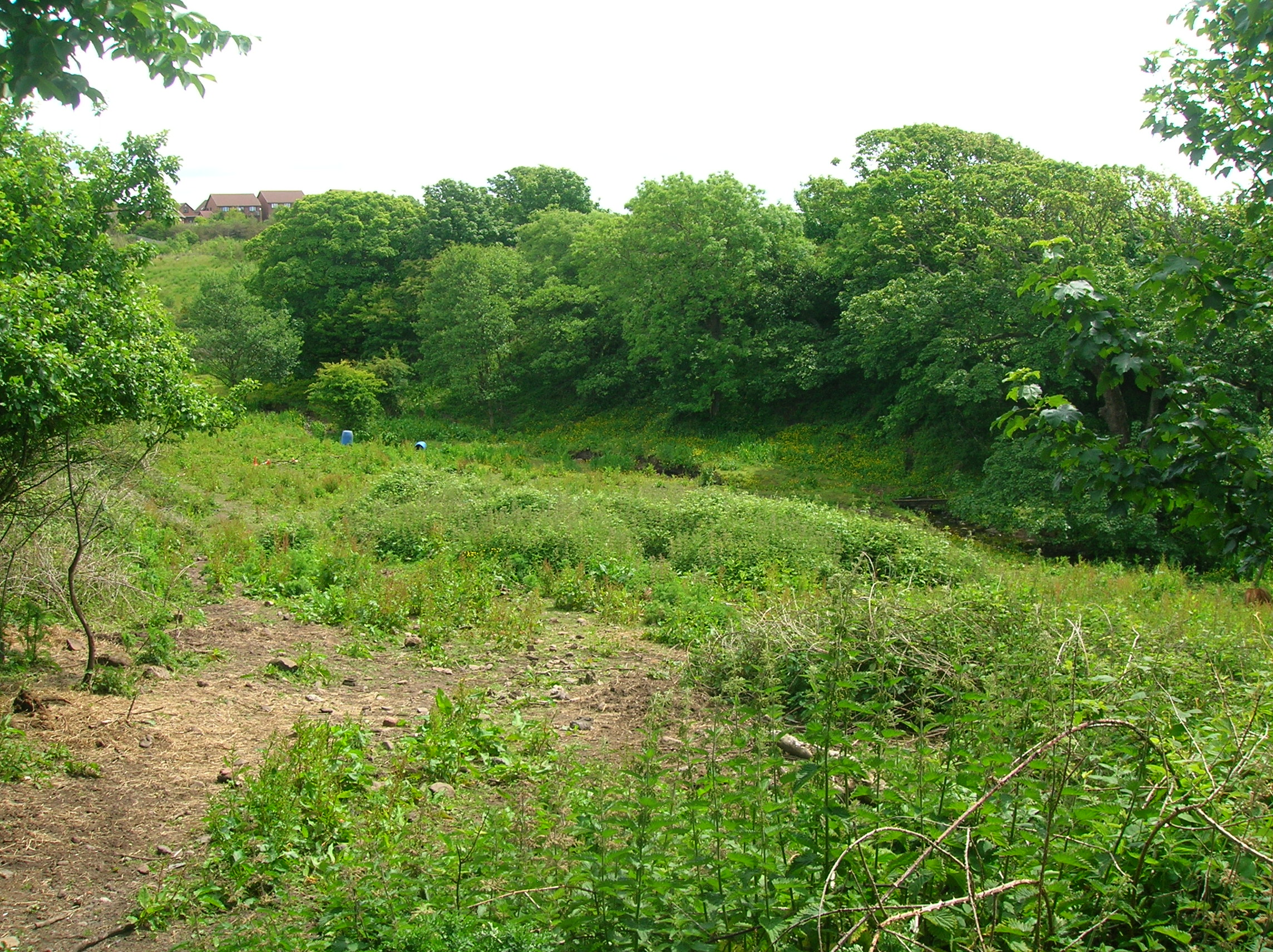 A view of the Cuff Holm below the farm and above the castle, Ardrossan, North Ayrshire, Scotland.